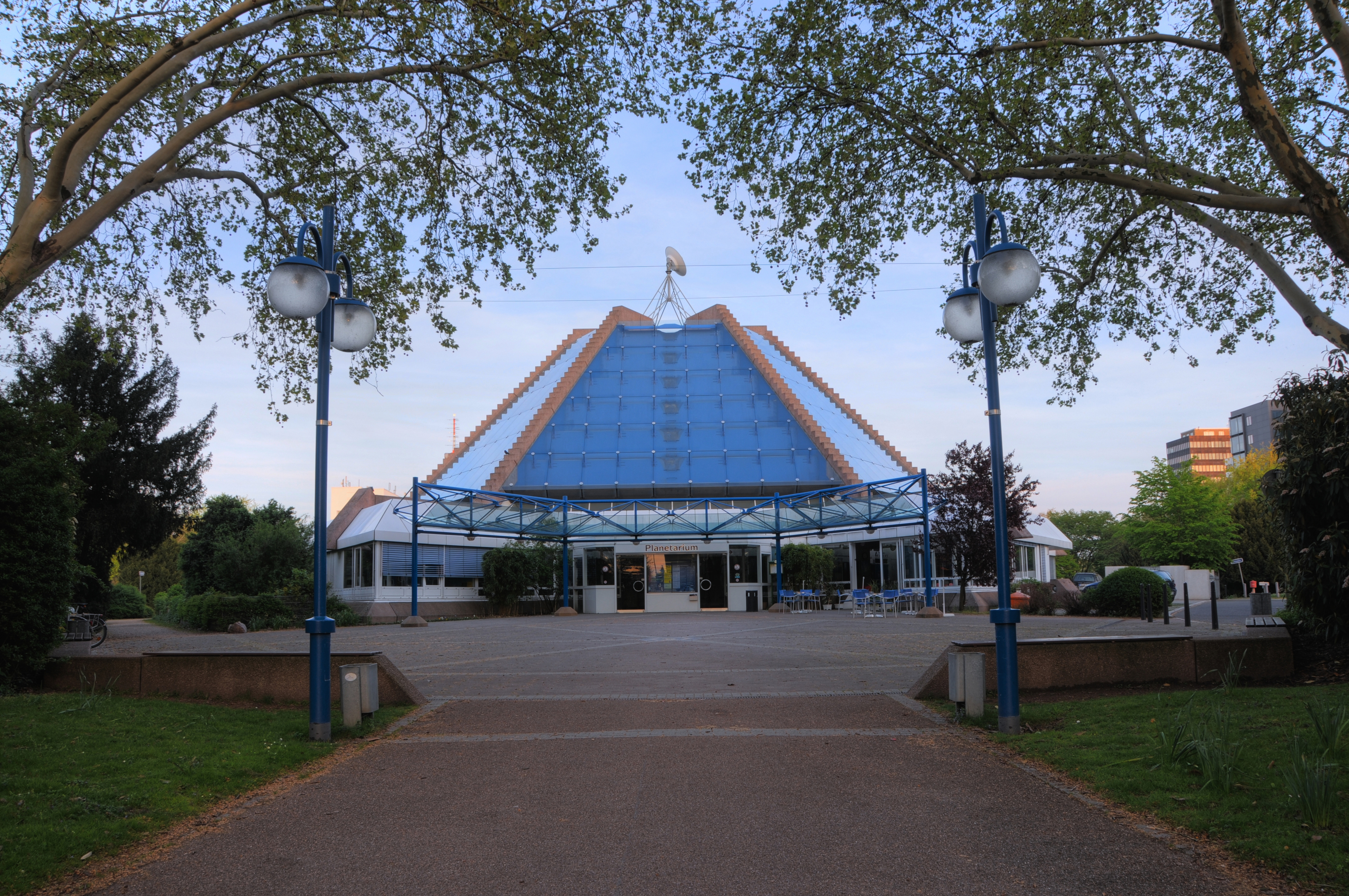 Planetarium Mannheim, entrance in the early evening, HDR